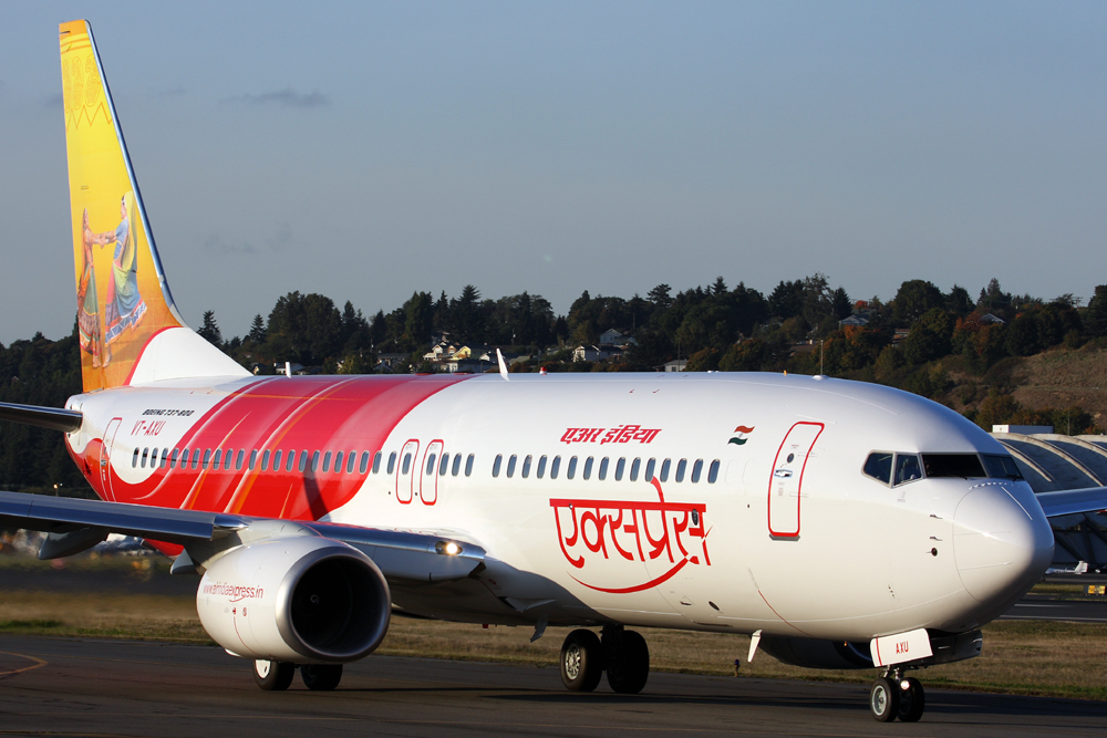 Air India Express Boeing 737, VT-AXU